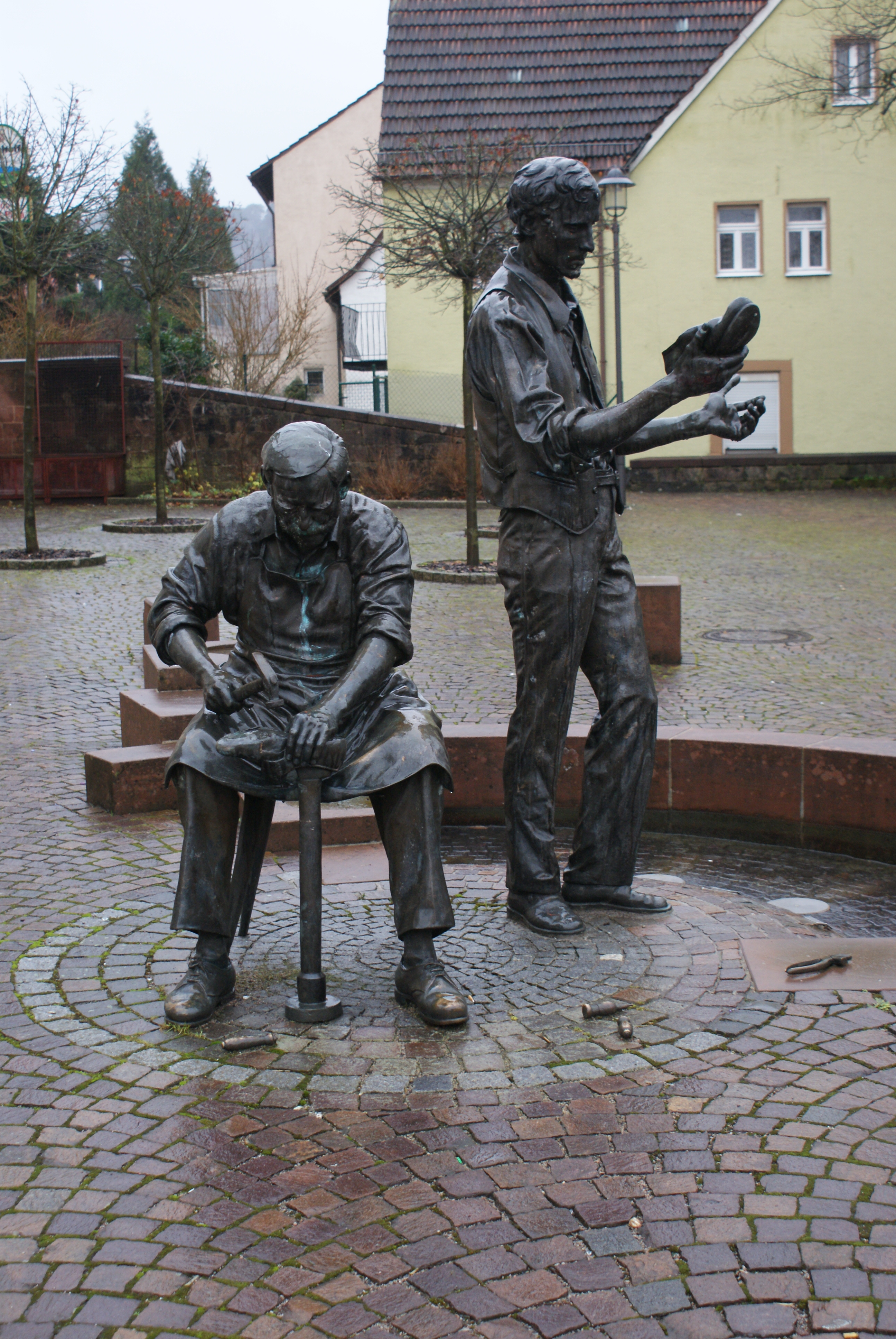 cobbler monument in hauenstein closeup